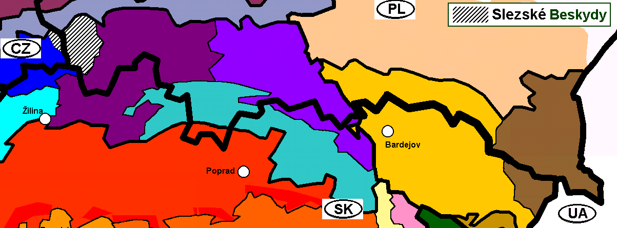 Situation of Slezské Beskydy